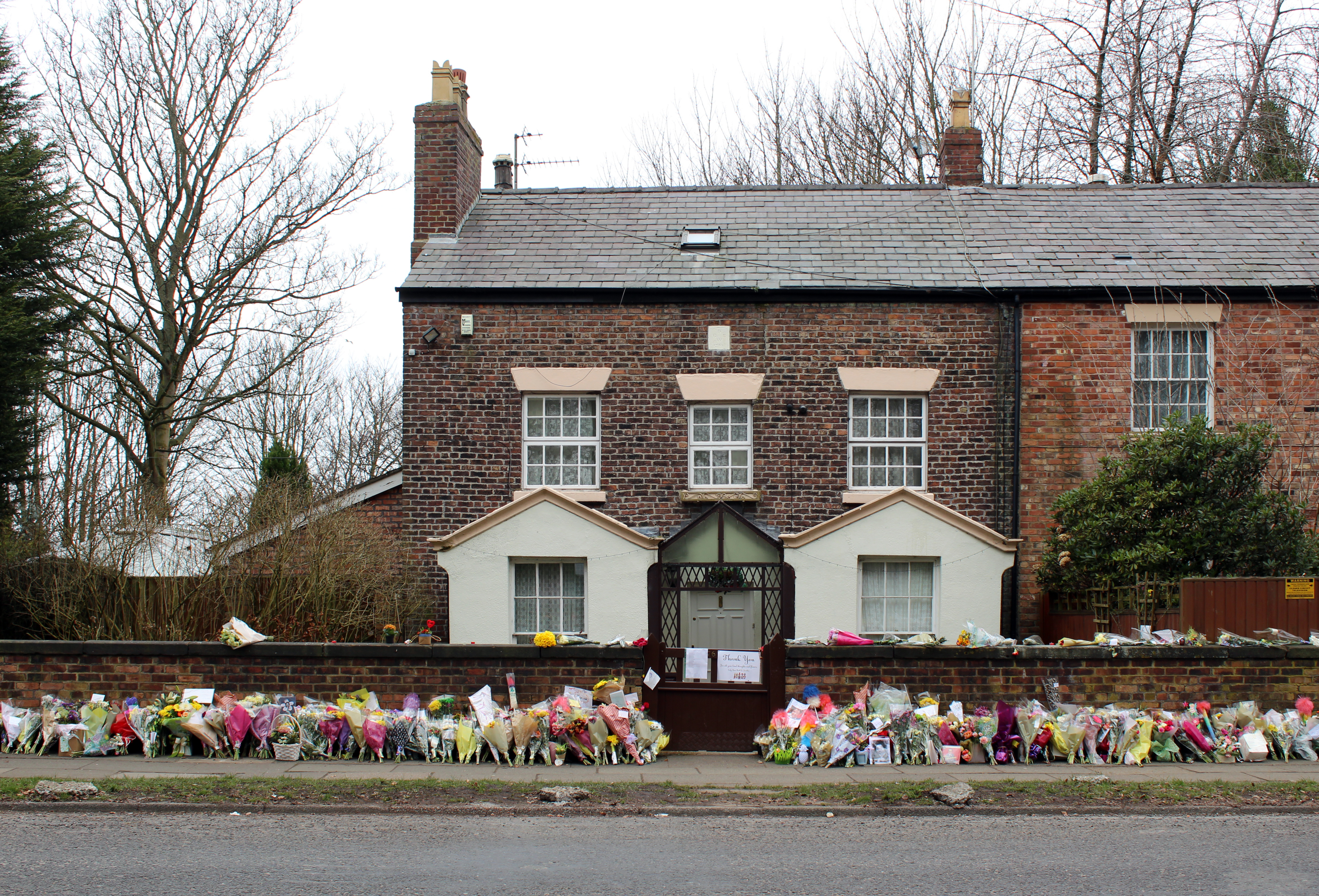 Grade II listed house dated to 1784, notable as the residence of Ken Dodd for all his life. Floral tributes note his recent death.